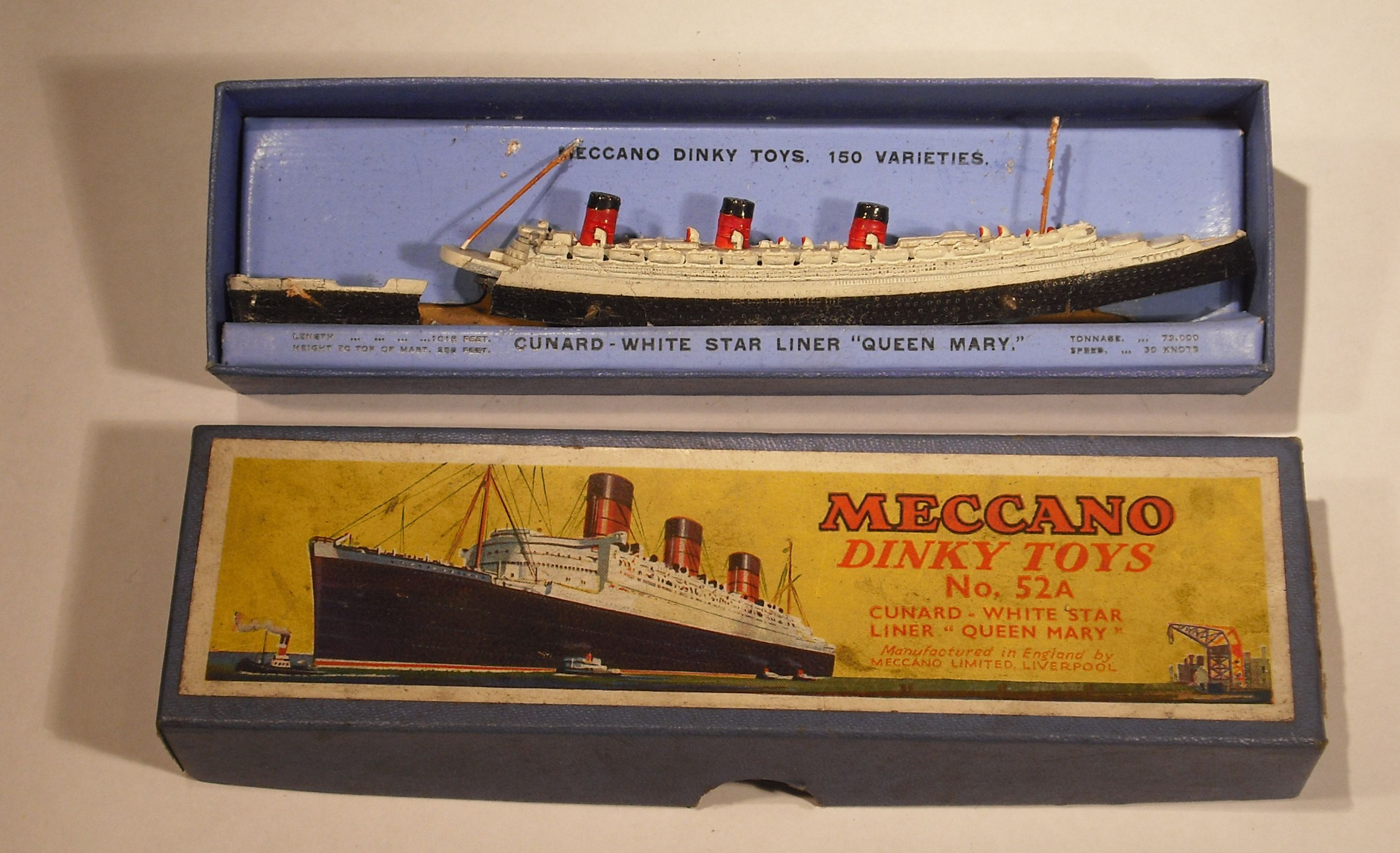 Dinky Toy model of the liner Queen Mary Extensive damage to the model is due to zinc pest, a particular problem with Dinky Toys of this age.